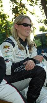 Liz Halliday at the 2006 24 Hours of Le Mans drivers' parade